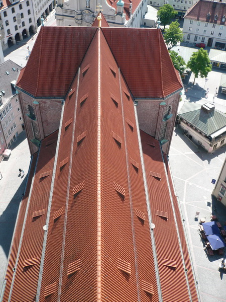 Roof of the church "Old Peter" in Munich.